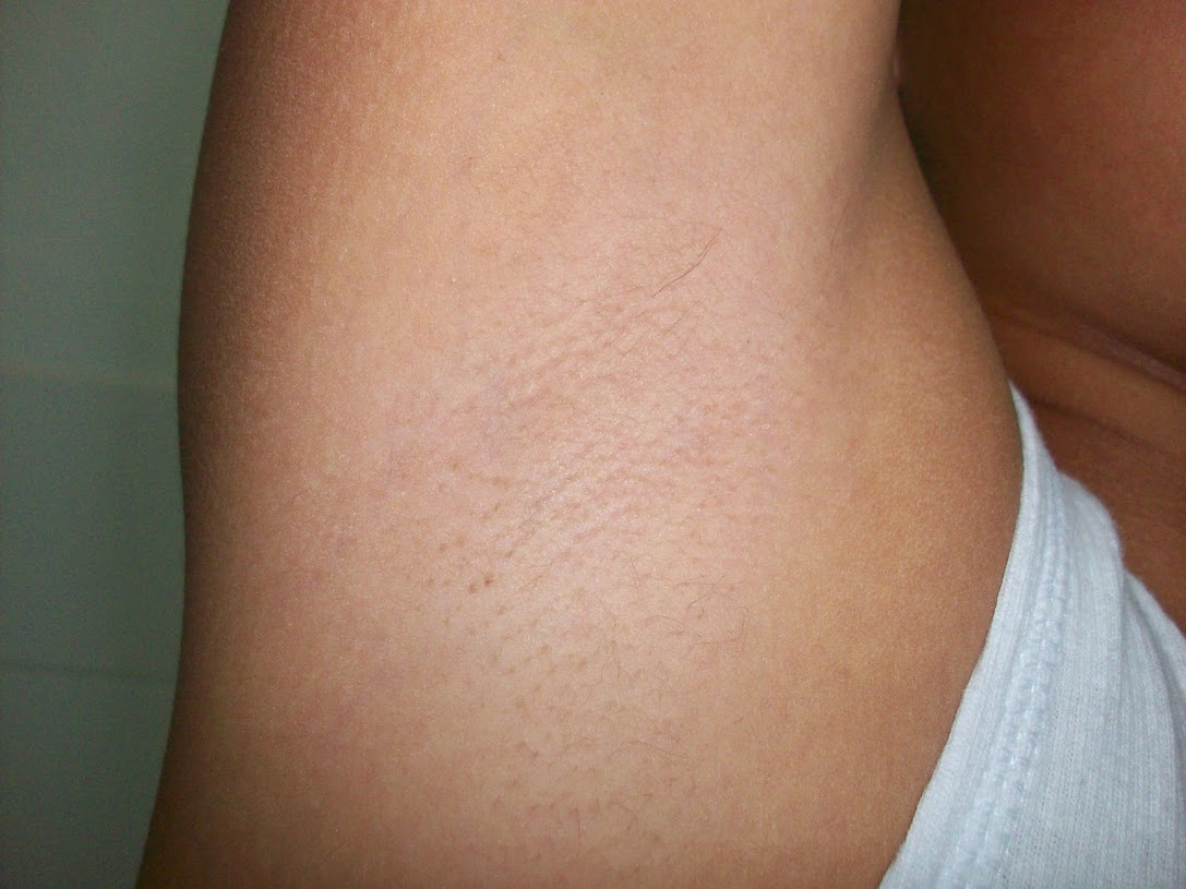 Armpit of a Teenager,in developement. the are small hairs.